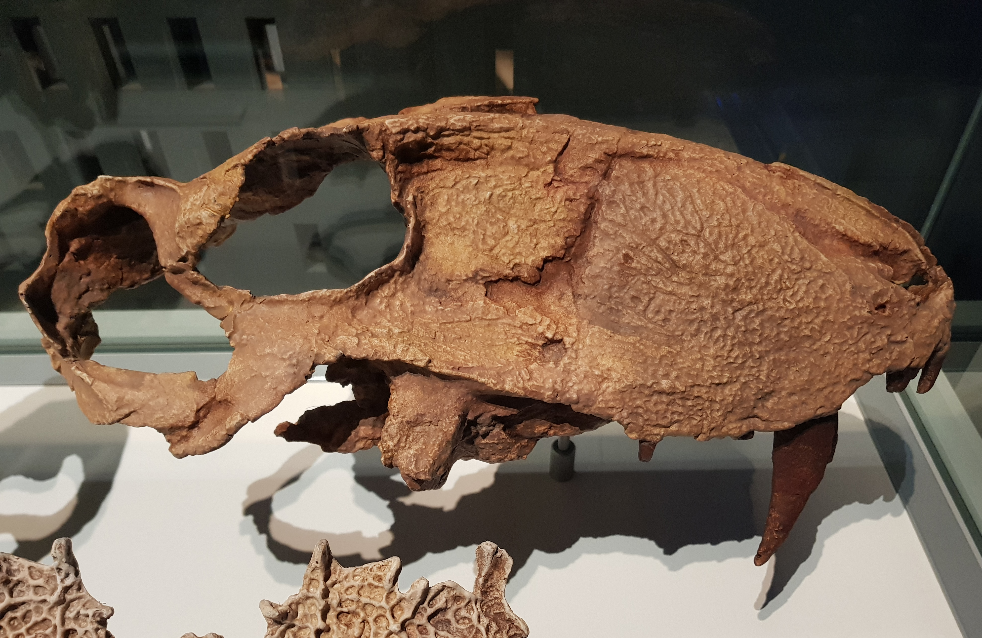 Skull cast of Eotitanosuchus at the Melbourne Museum.